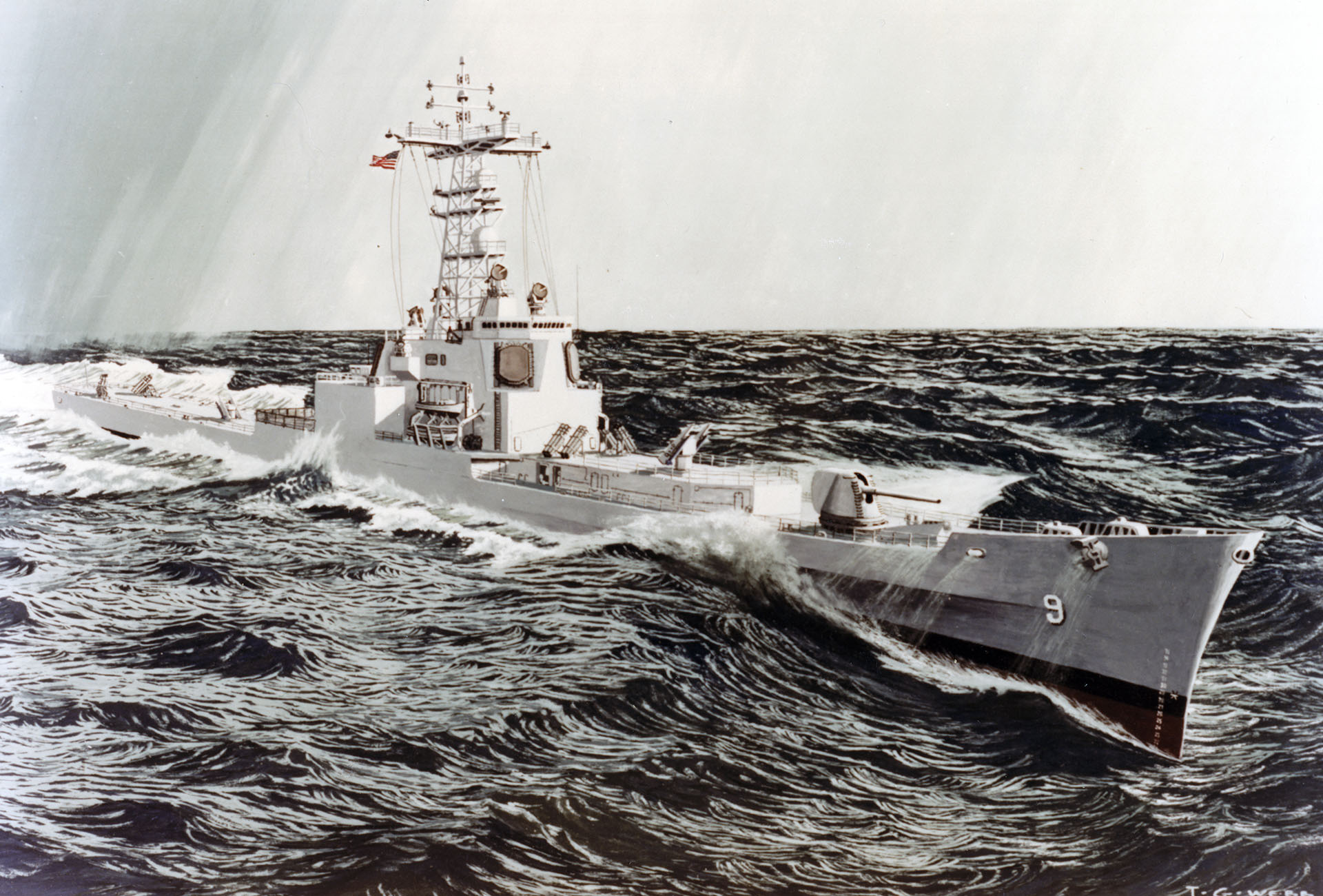 Illustration of proposed conversion of USS Long Beach (CGN-9) into an AEGIS radar-eqiupped cruiser for FY 1977, 1978, and 1978.